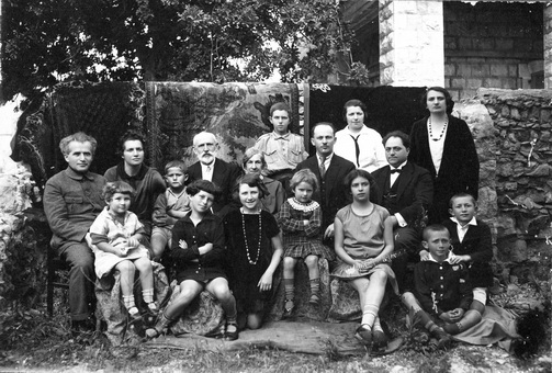 Seventieth birthday of Avigdor Green upon his arrival in Palestine. In the photo are Avigdro and his wife, Paula and David Ben-Gurion, Aryeh Friedman Levov, Ze'ev Shadmi and their grandchildren.